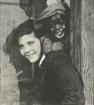 This is a detail of a publicity pic taken for the 1922 film Penrod, with Gordon Griffith (below) and Florence Morrison (above). Scan by: Drina Mohacsi Contact Crop by: Jay Carriker Contact.